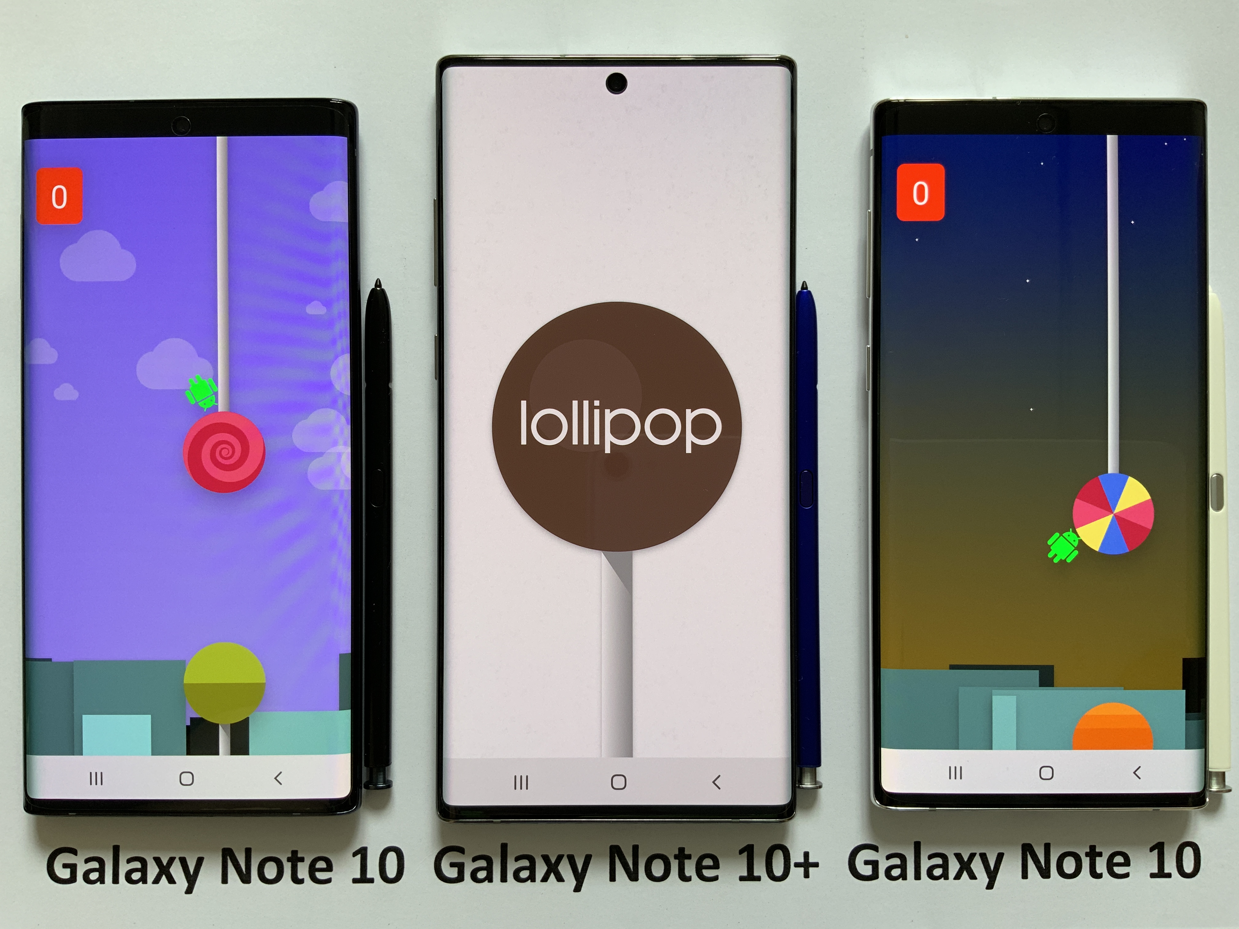 Android Lollipop Easter eggs shown on Samsung Galaxy Note 10